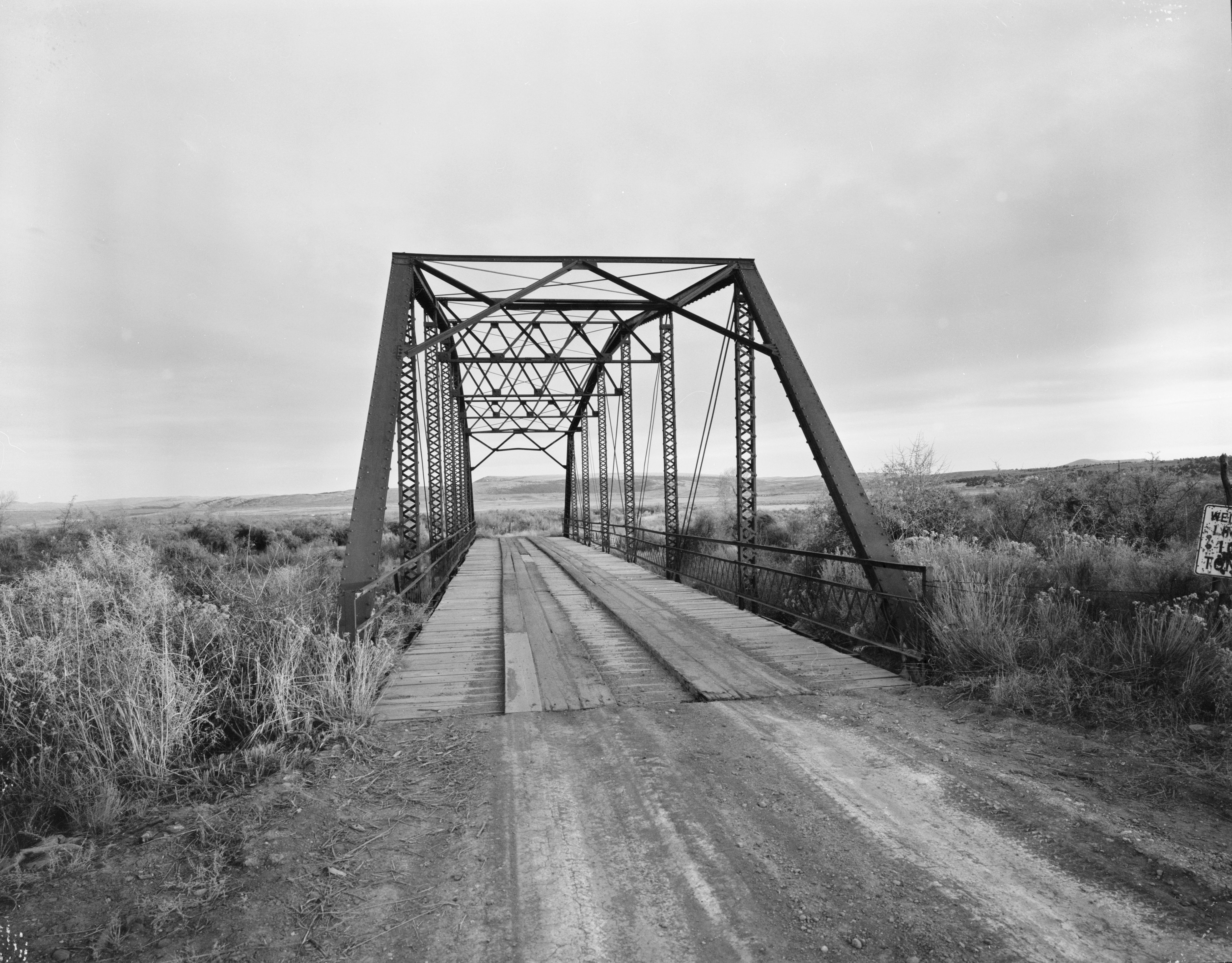 Northern end of the EFP Bridge over Owl Creek, which carries County Road CN15-28 over Owl Creek near Thermopolis in Hot Springs County, Wyoming, United States. Built in 1919, this camelback through truss bridge is listed on the National Register of Historic Places.